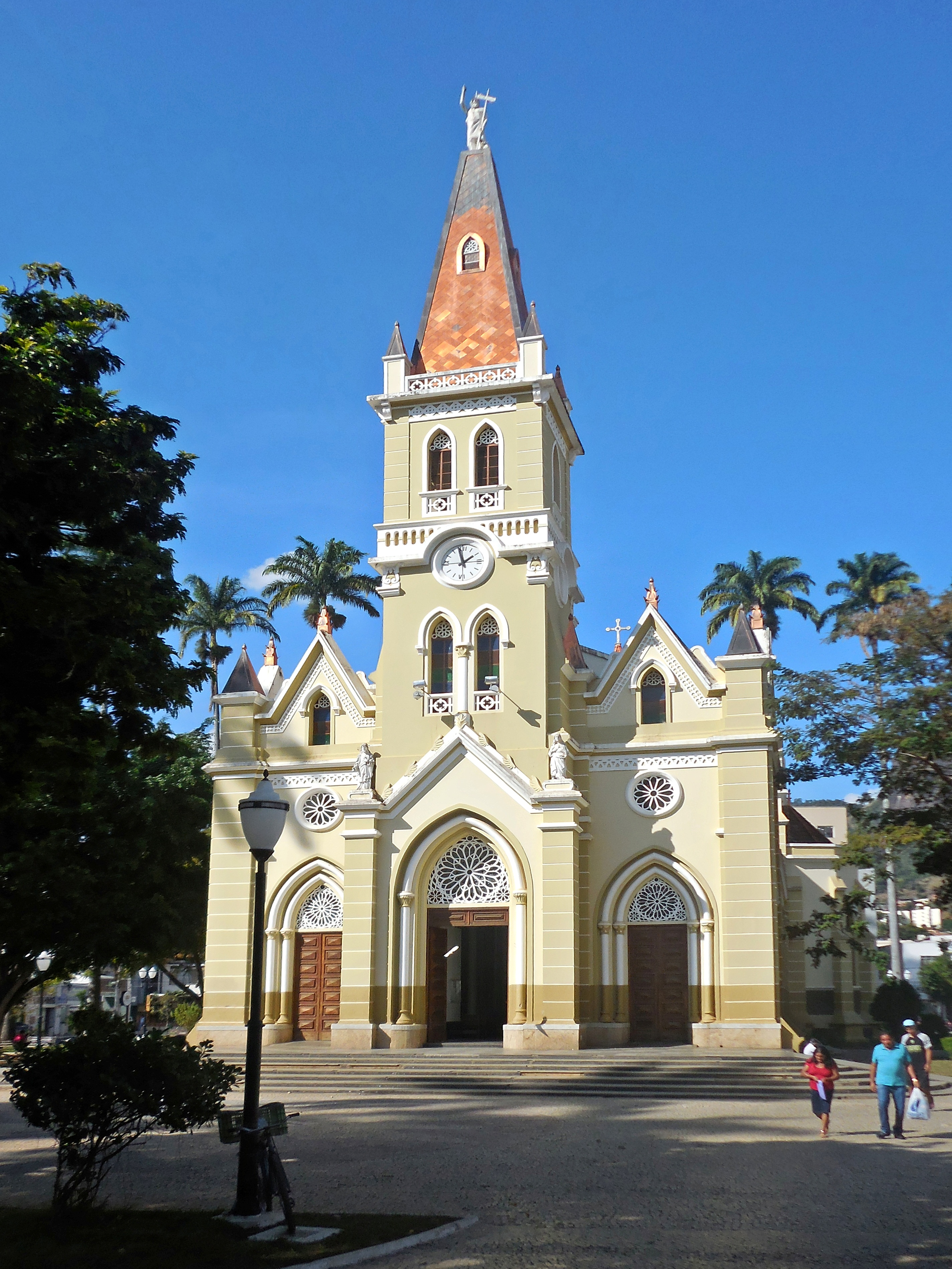 Facade of the Saint John the Baptist Cathedral, in Caratinga, Minas Gerais, Brazil.